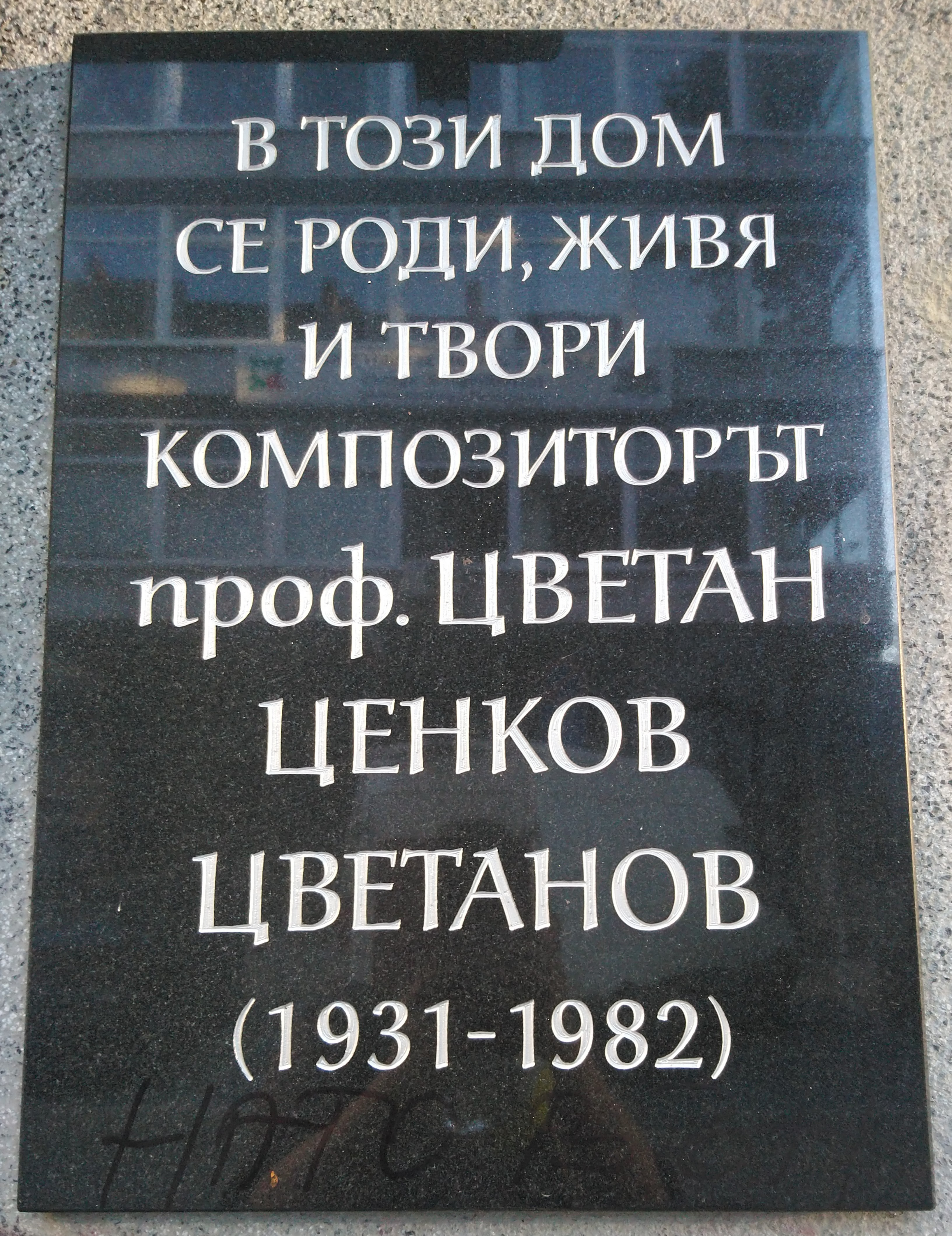 Tsvetan Venkov Tsvetanov memorial plaque, 50 Aksakov Str., Sofia